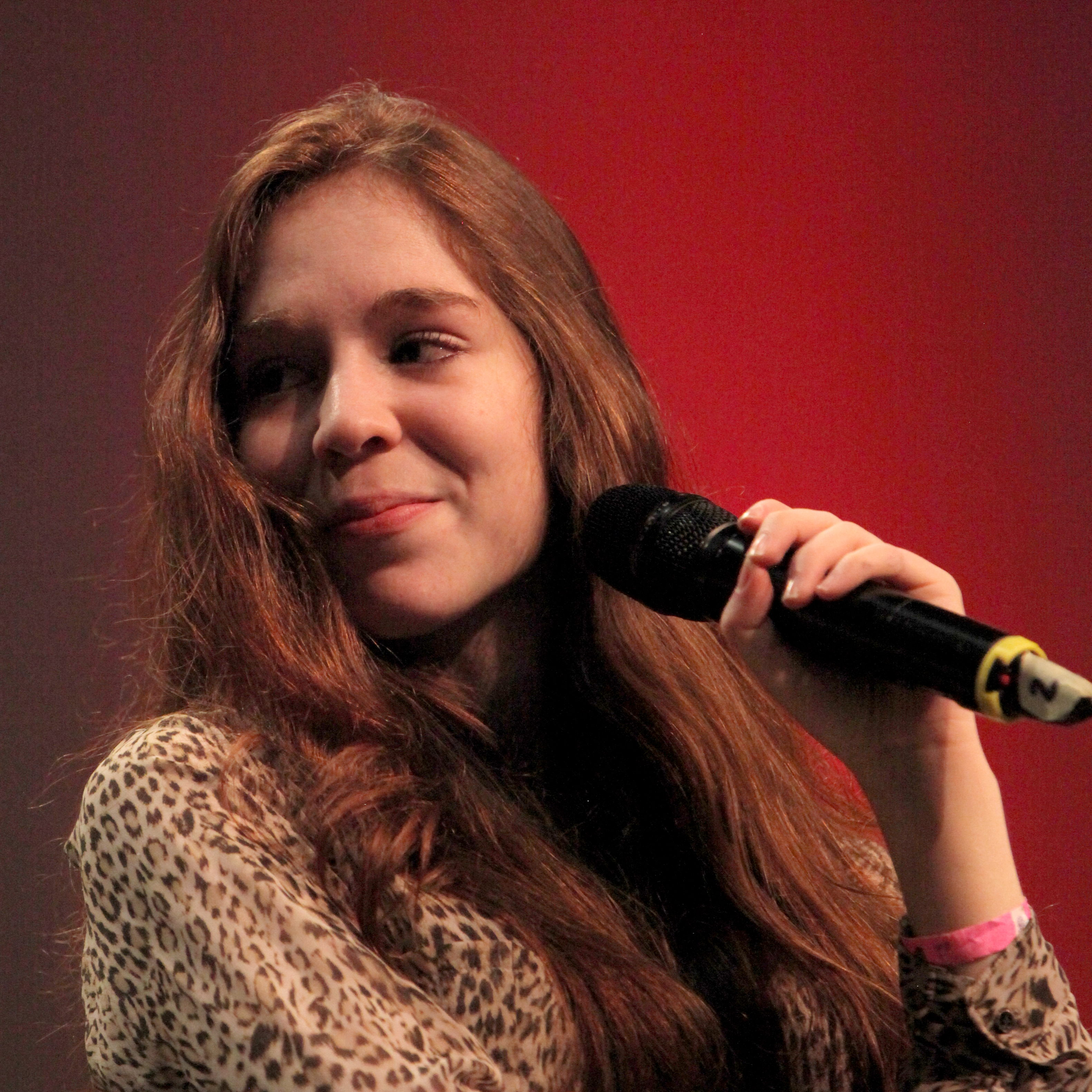 Portrait of MissJirachi at Polymanga 2016